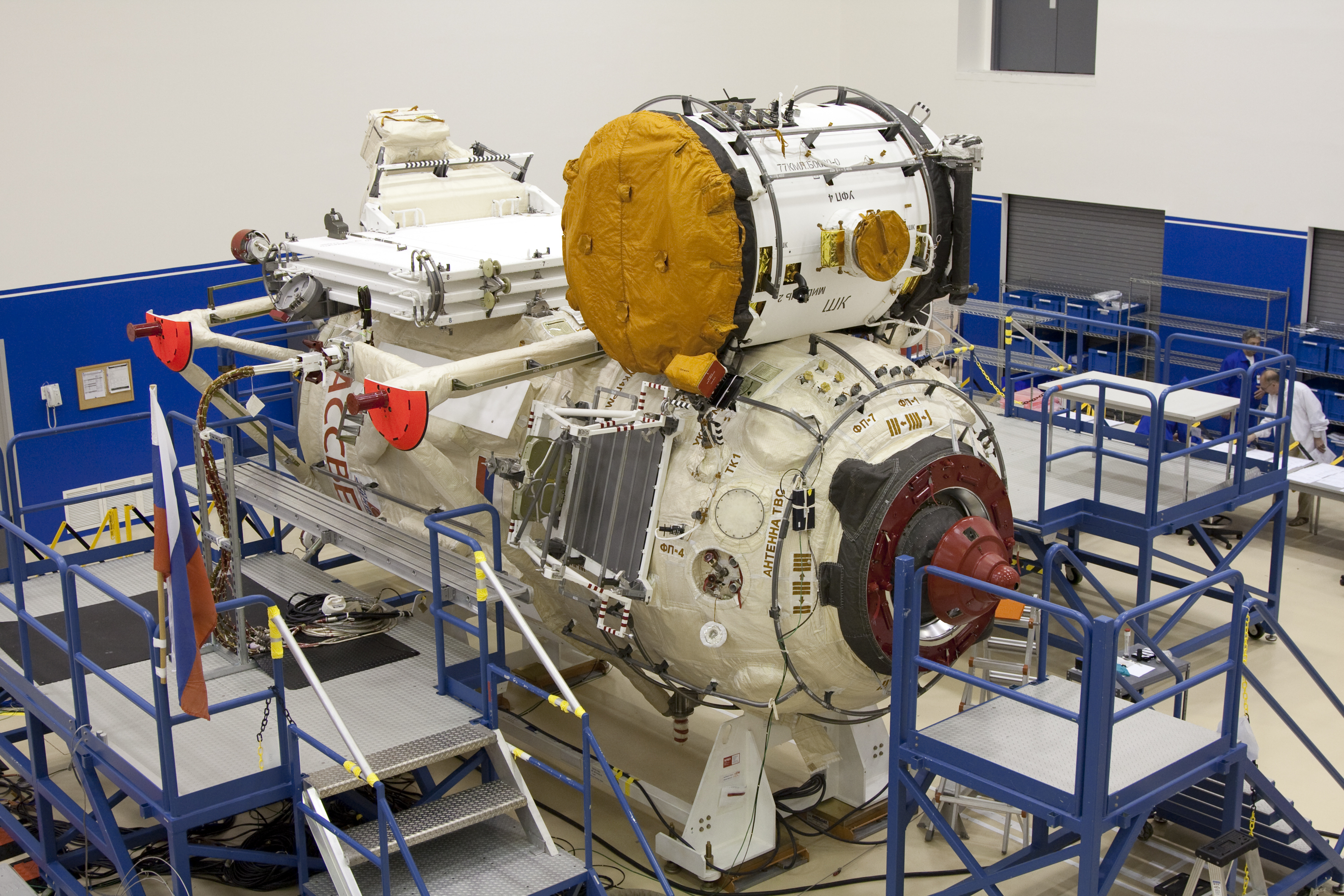 A media event was hosted by NASA and the Russian Federal Space Agency, Roscosmos, to showcase the Russian-built Mini-Research Module-1, or MRM-1, in the Astrotech payload processing facility at Port Canaveral, Fla. Supplies and other cargo have already been installed into the MRM-1. The module is on display for the media before its transport to the Space Station Processing Facility at NASA's Kennedy Space Center. The six-member crew of space shuttle Atlantis' STS-132 mission will deliver an Integrated Cargo Carrier and the MRM-1, known as Rassvet, to the International Space Station. The second in a series of new pressurized components for Russia, MRM-1 will be permanently attached to the Earth-facing port of the Zarya control module. Rassvet, which translates to "dawn," will be used for cargo storage and will provide an additional docking port to the station. STS-132 is the 34th mission to the station and the 132nd space shuttle mission. Launch is targeted for May 14.